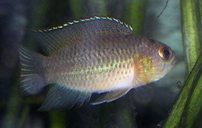 Nannacara anomala, juvenile (ca. 2.5 cm SL), in an aquarium.